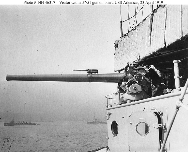 A young woman visitor sighting one of USS Arkansas' 5"/51 guns, in New York Harbor, 23 April 1919. U.S. Naval Historical Center Photograph.